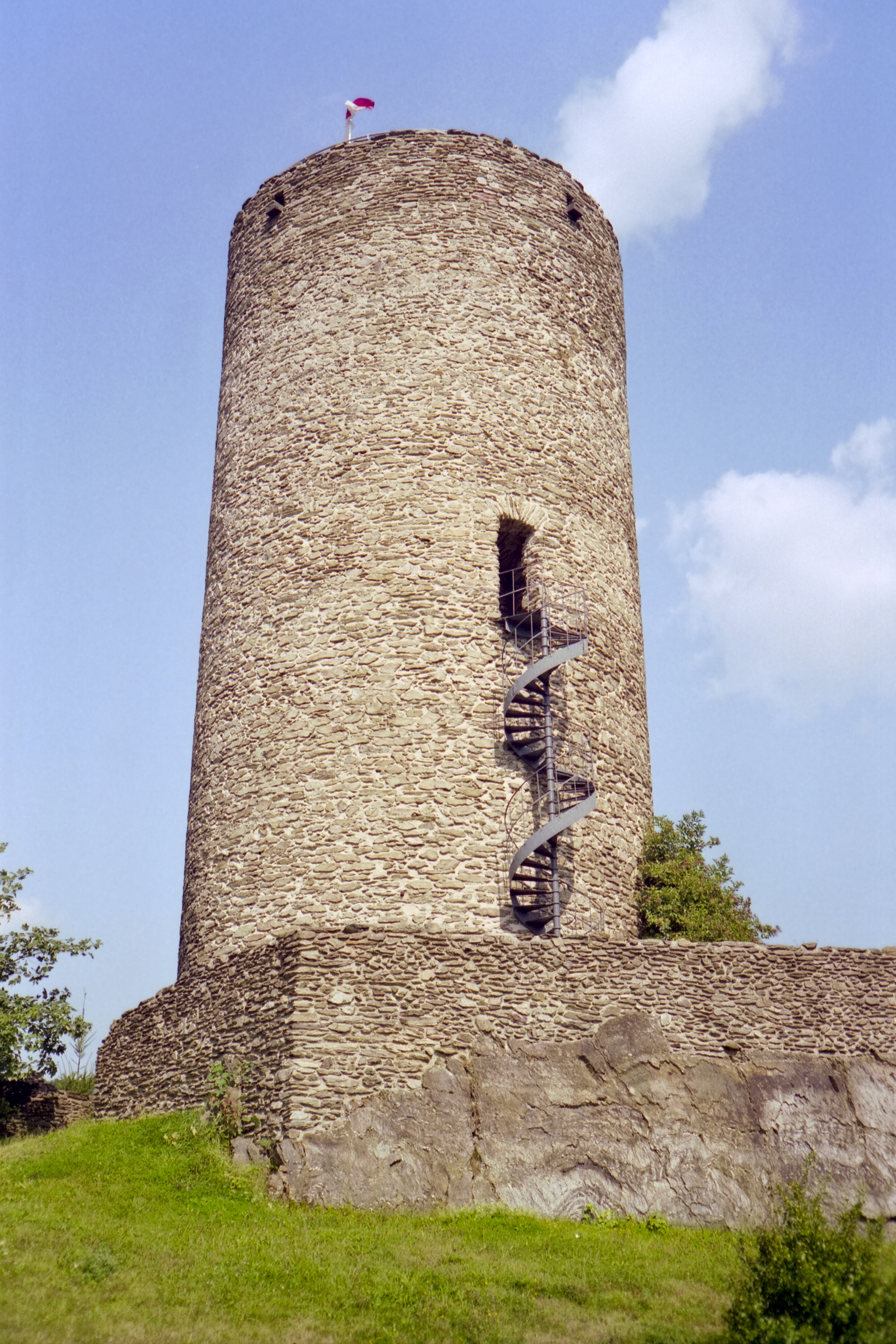 The keep of Altweilnau castle in Weilrod, Hessia, Germany.